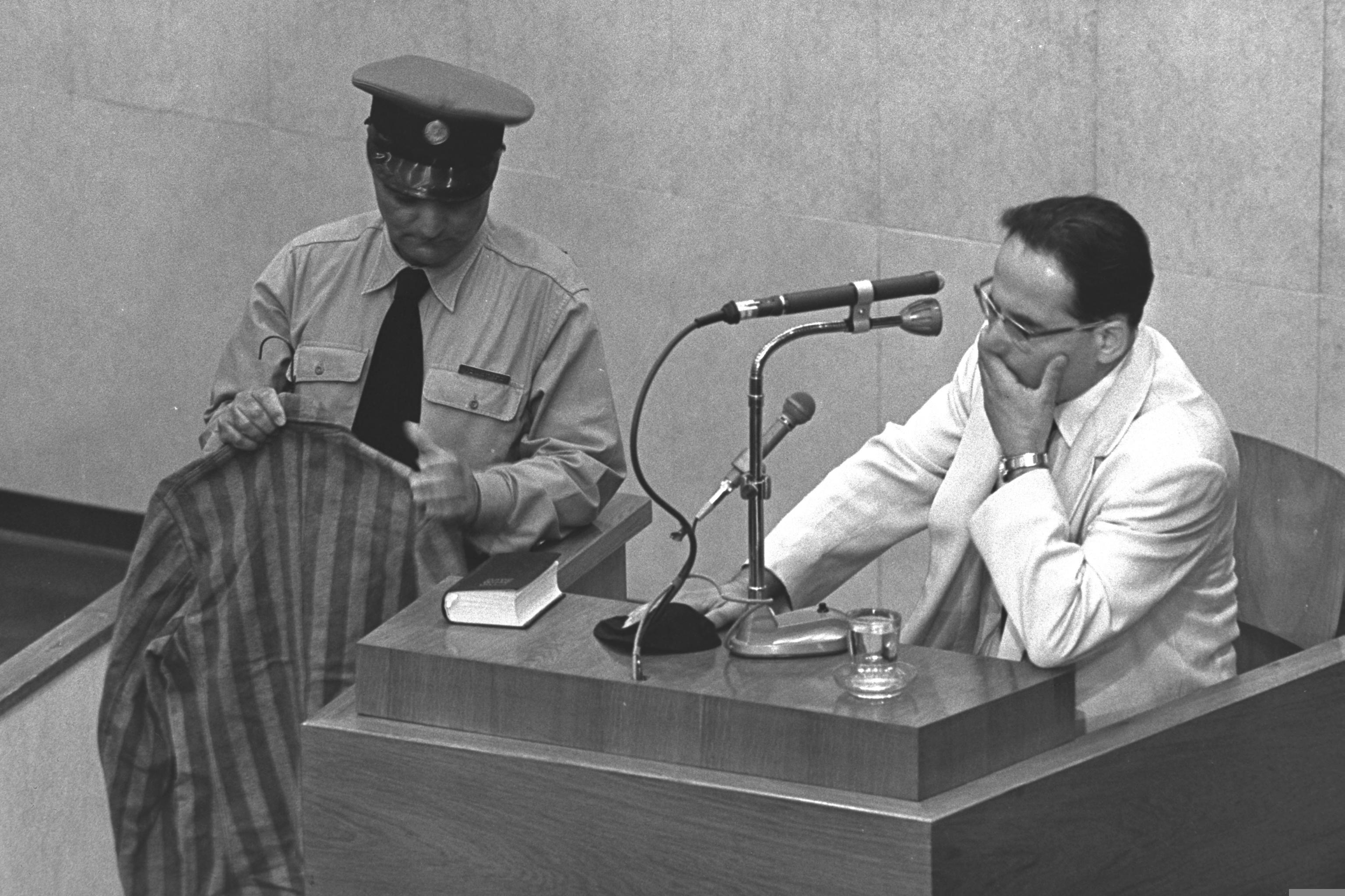 Yehiel Dinur Katzetnik, a prosecution witness at the trial of Nazi war criminal Adolf Eichmann, at Beit Ha'am in Jerusalem. Information from USHMM: Witness Yehiel De-Nur Katzetnik testifies during the trial of Adolf Eichmann. [Photograph #65286] Date: Jun 7, 1961 Locale: Jerusalem, Israel Credit: USHMM, courtesy of Israel Government Press Office Copyright: Public Domain